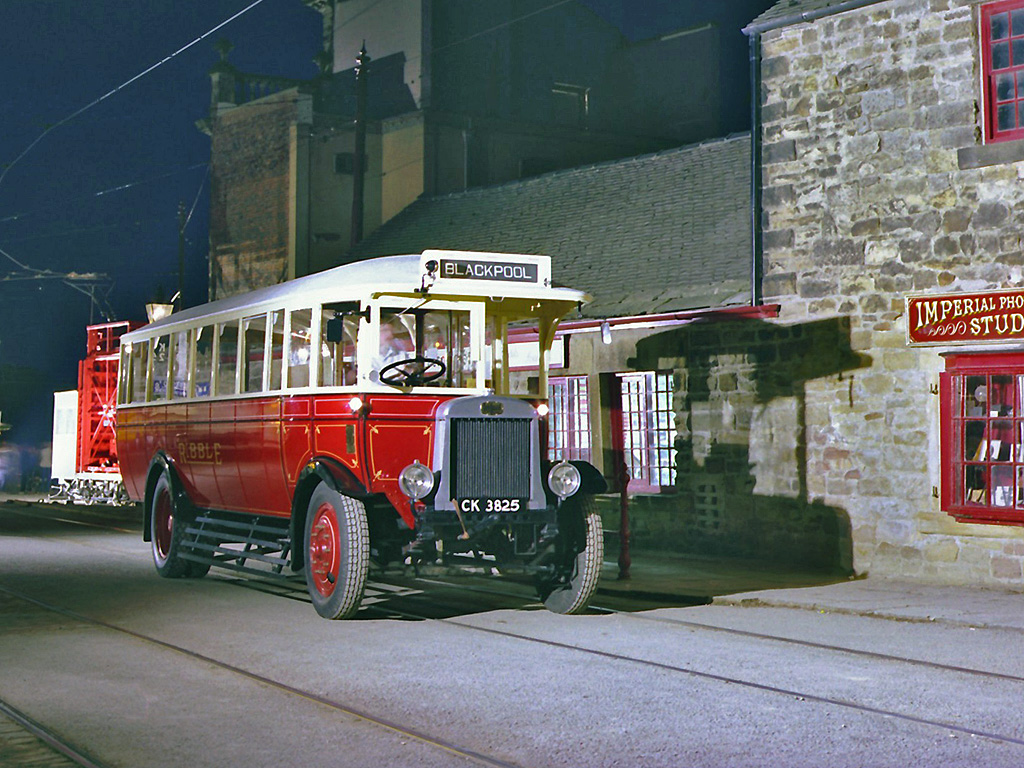 Ribble Motor Services Limited 295 CK 3825, a Leyland 'Lion' PLSC1 built 1927 with a Leyland B31F body on display at the National Tramway Museum, Crich. Sunday 28th August 1983